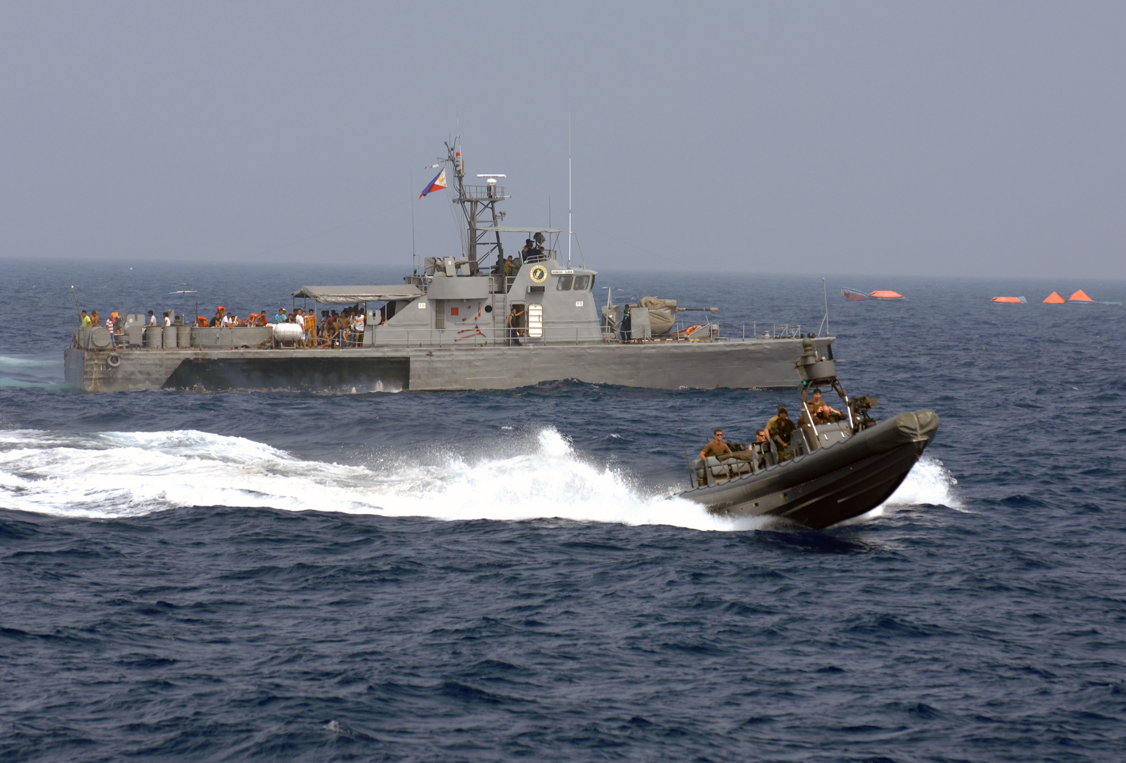 ZAMBOANGA, Philippines (Sept. 6, 2009) A Philippine Navy patrol boat and an 11-meter rigid hull inflatable boat operated by members of Joint Special Operations Task Force-Philippines (JSOTF-P) search for survivors Sept. 6, 2009 following the sinking of a super ferry off the coast of Zamboanga del Norte. (U.S. Navy photo by Petty Officer 2nd Class William Ramsey/Released)